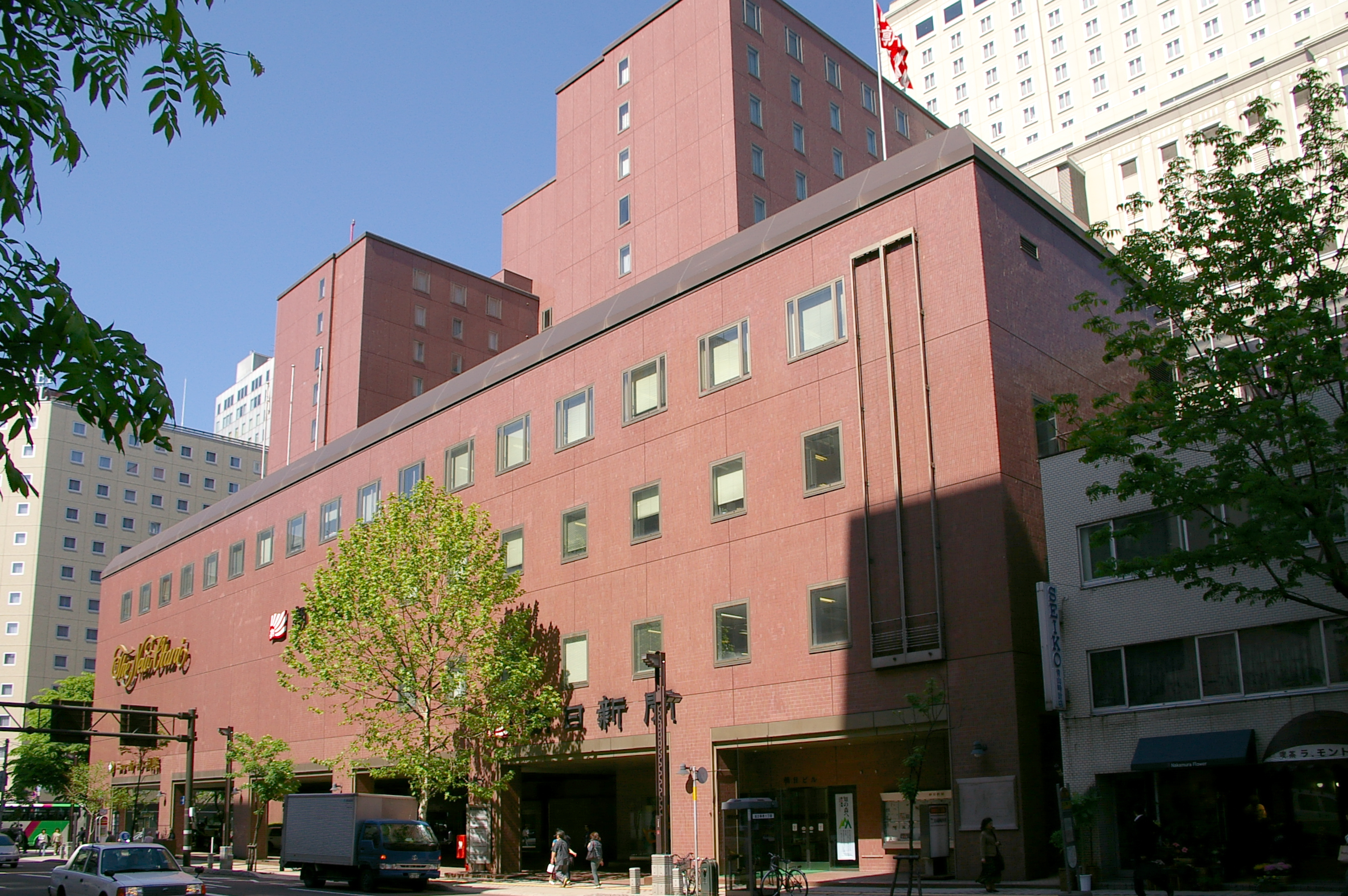 Photograph of Asahi Building, including Hokkaido Branch Office of Asahi Shimbun Company and Hotel New Otani Sapporo, in Chuo-ku, Sapporo, Hokkaido, Japan.